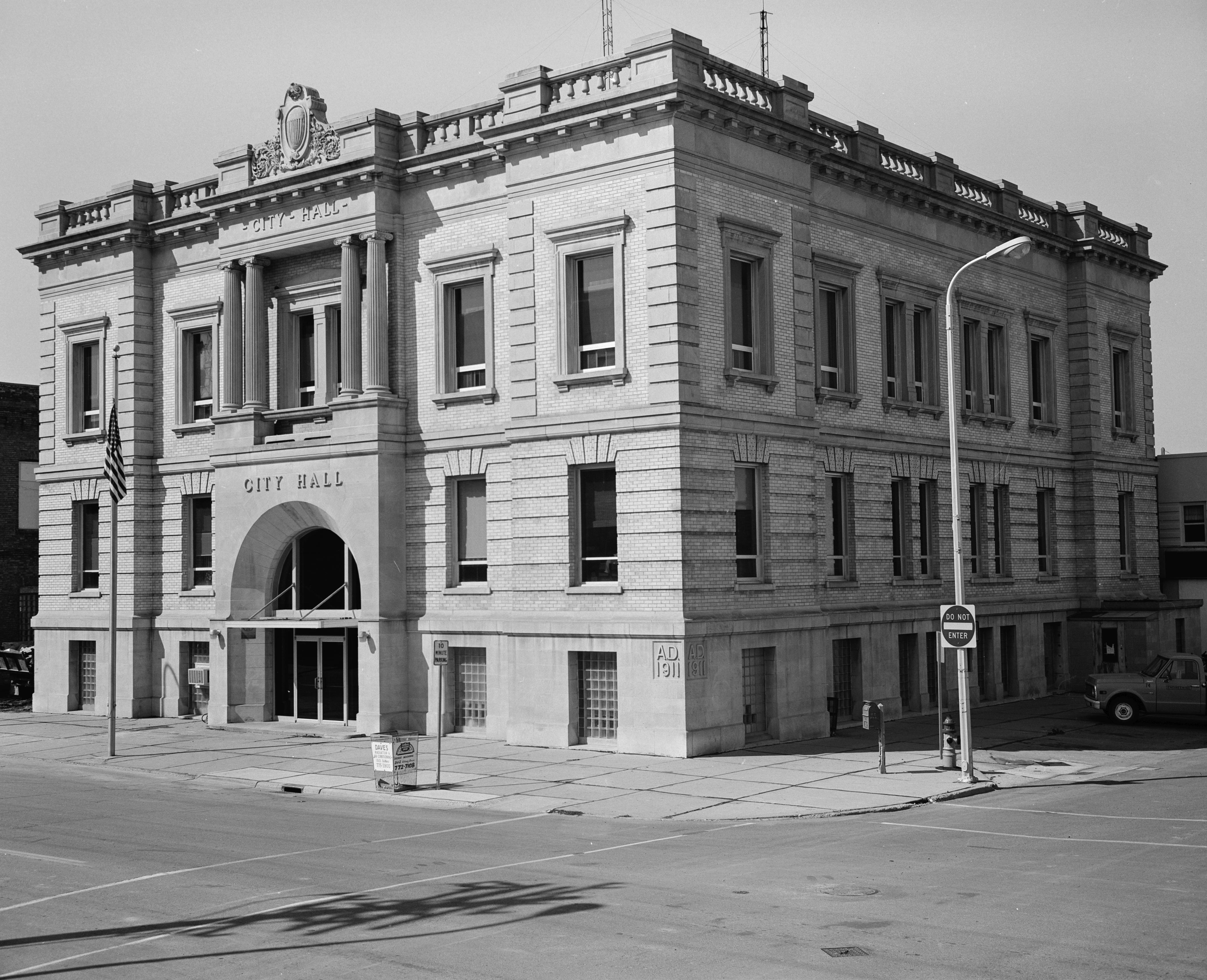 Front and side of City Hall in Grand Forks, North Dakota, United States. Built in 1911 and located at 404 N. Second Avenue, it is listed on the National Register of Historic Places.